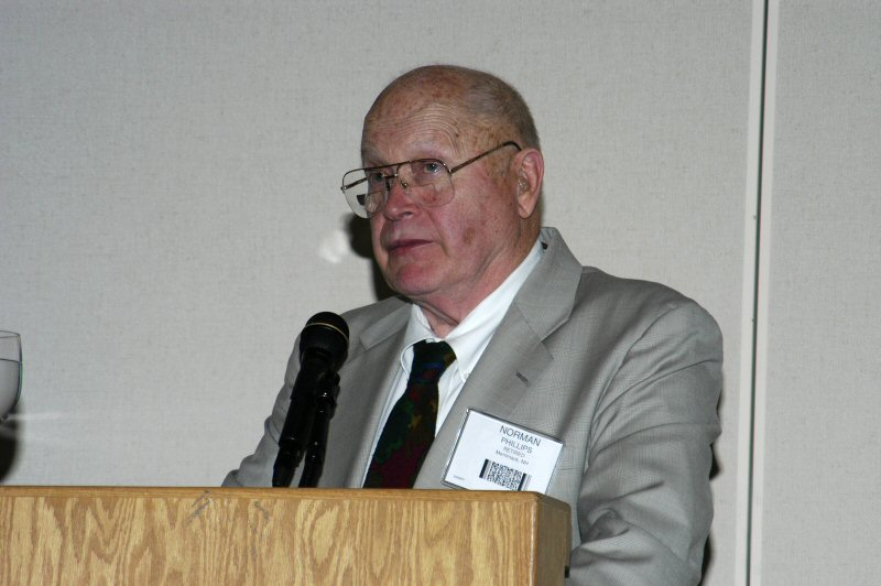 Norman Phillips speaking at Symposium on the 50th Anniversary of Operational Numerical Weather Prediction in 2004